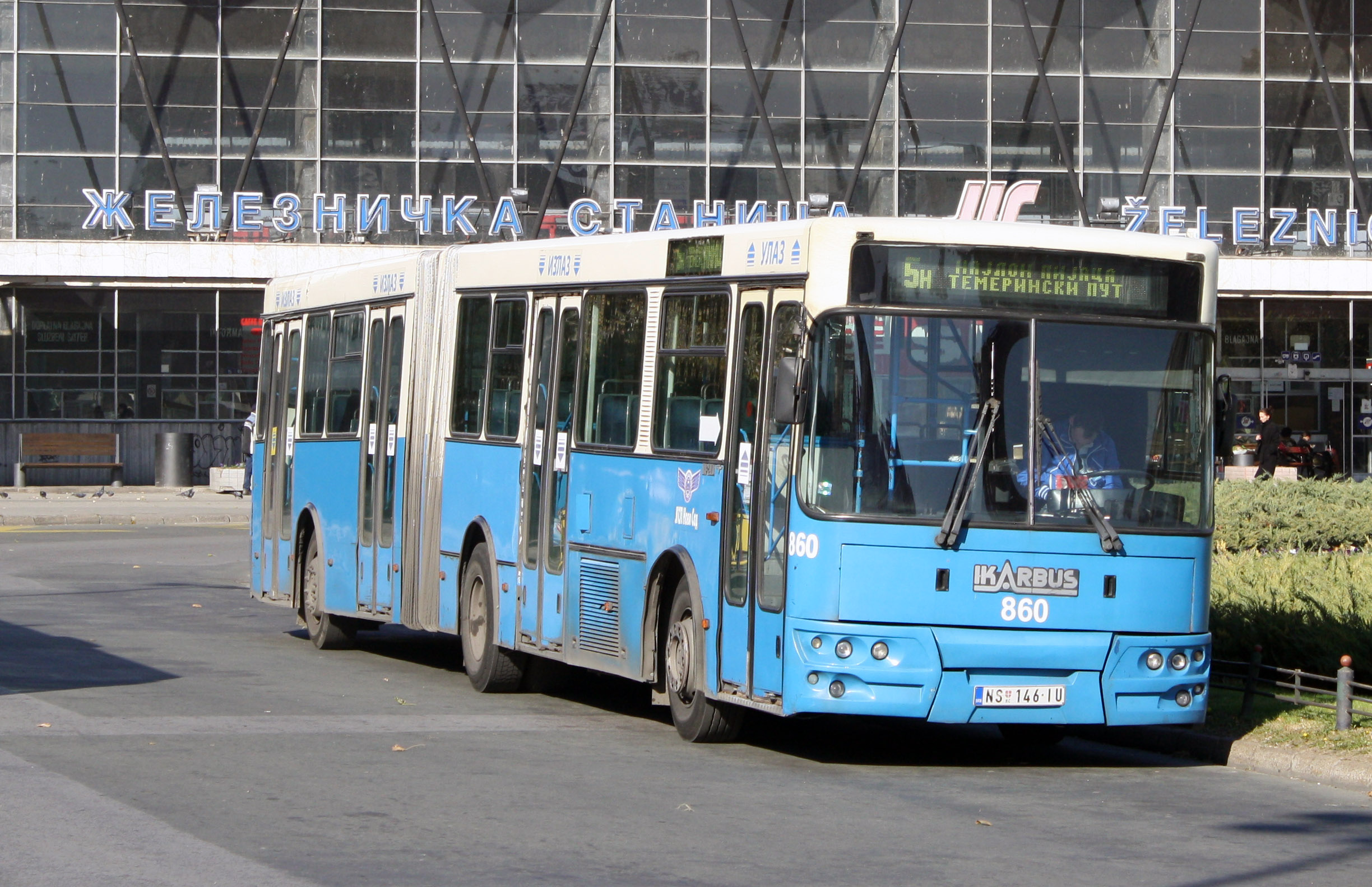 Ikarbus IK 201 articulated city bus of JGSP Novi Sad public transport company in front of Novi Sad train station.